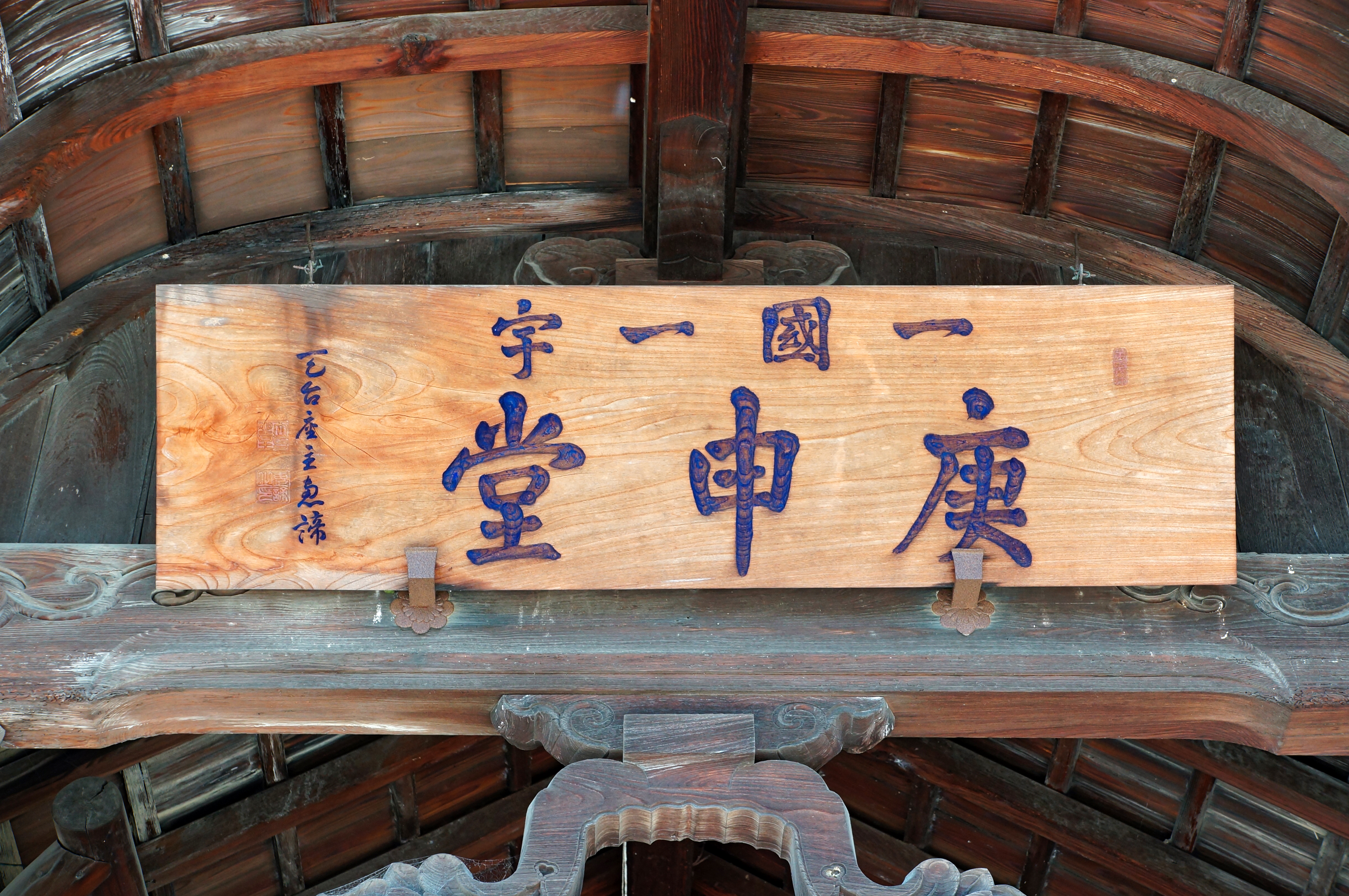 Konrin-in in Yamatokoriyama, Nara prefecture, Japan.